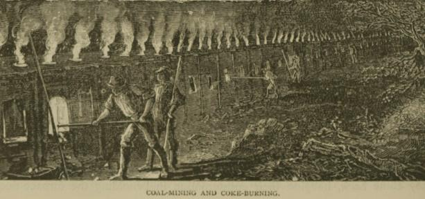 Illustration from book